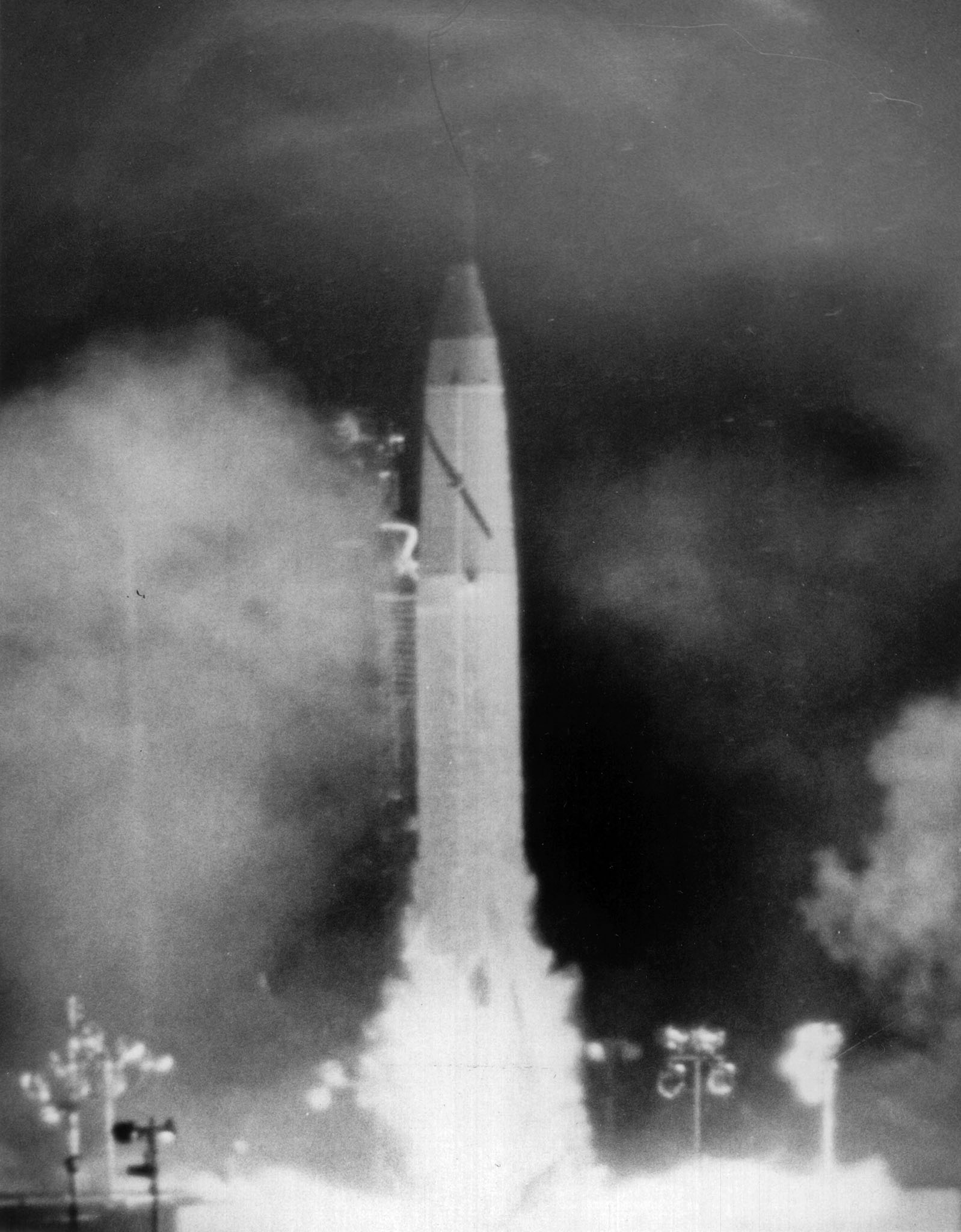 Thor MG-18 with satellite DMSP 4A F1